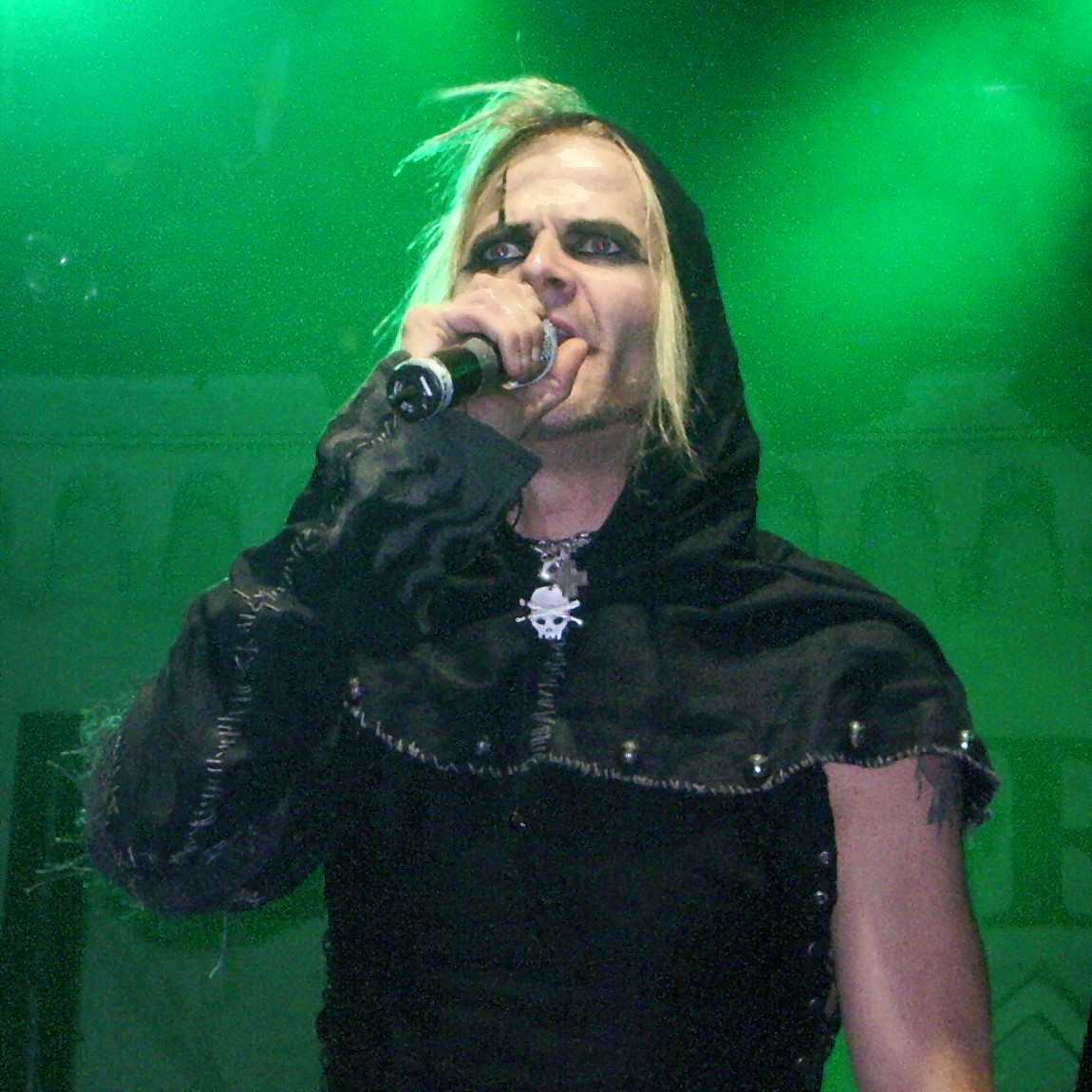 Snowy Shaw of Therion at The Fridge in London, 16th December 2007